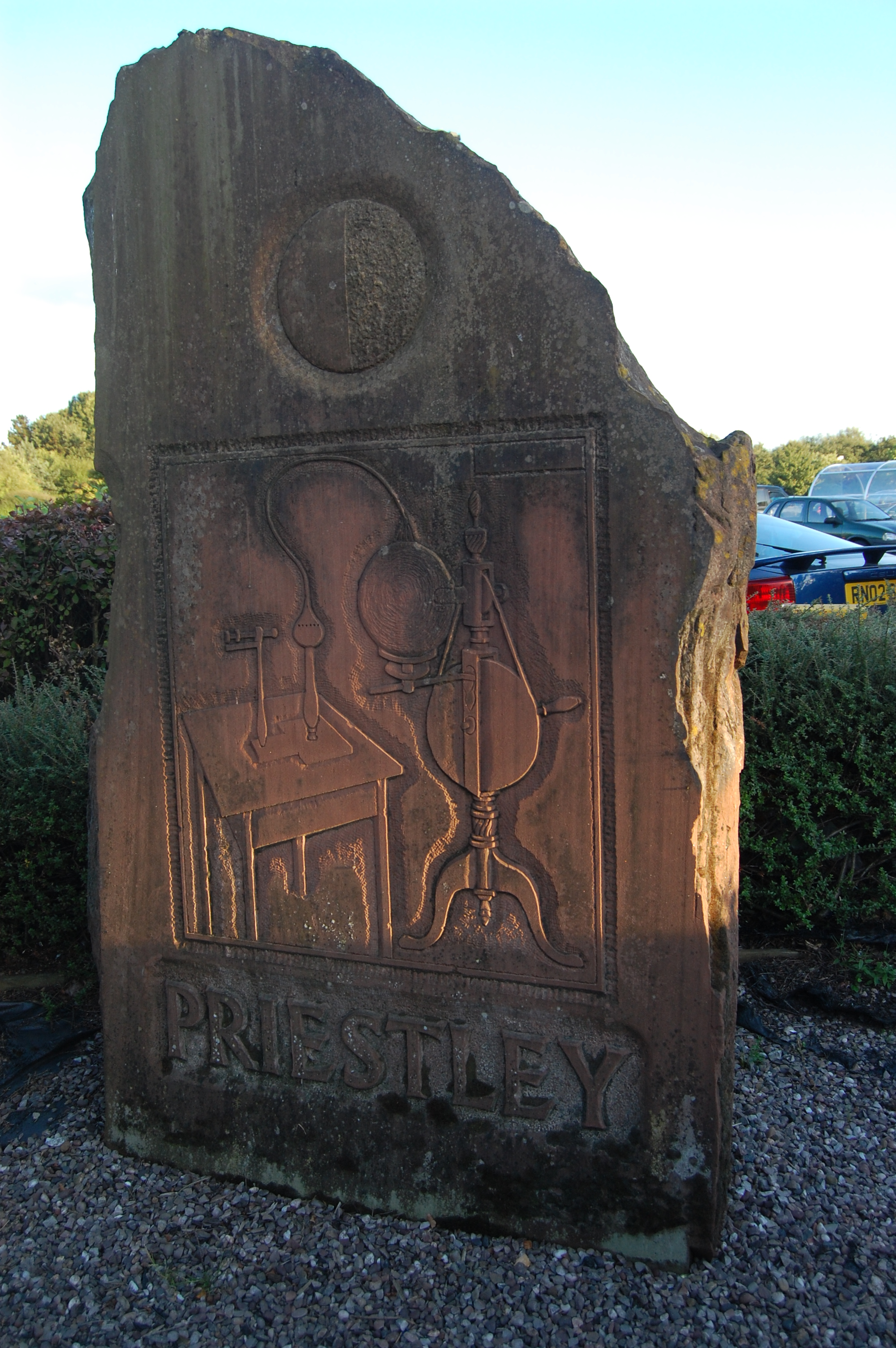 The Lunar Society Moonstones at Great Barr, Birmingham, England, commemorate members of the Lunar Society of Birmingham.